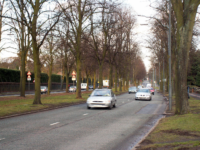 Bristol Road (A38) near Selly Park / Bournbrook. Looking north east. The wide central grass strip of this dual carriageway formerly carried the tram lines. Just south west of this point the road narrows to a single carriageway through Bournbrook, which suffers from heavy congestion.